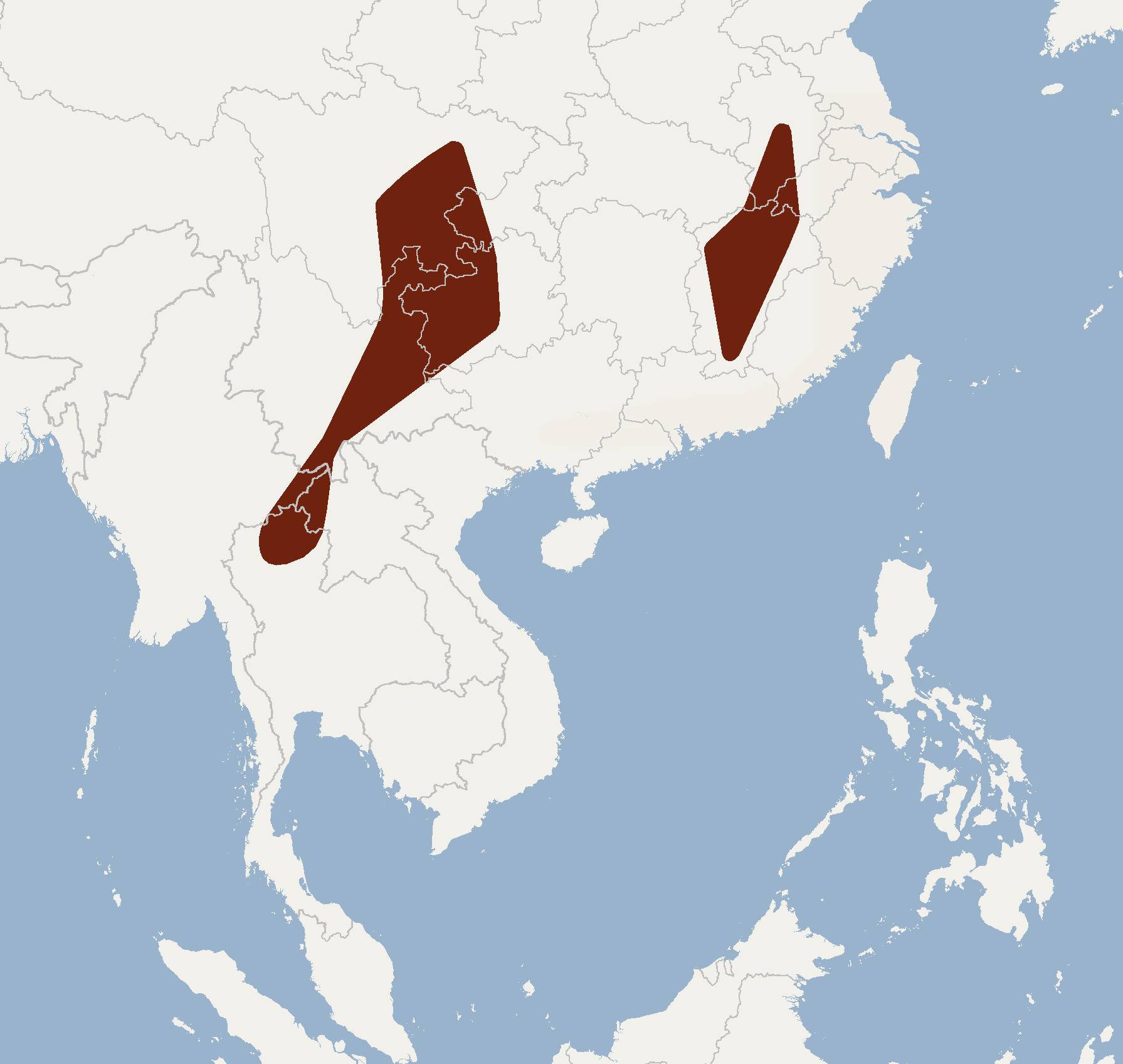 According to Francis, 2008 and Smith & Xie, 2008